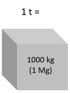 One tonne is equal to 1000 kilograms or 1 megagram